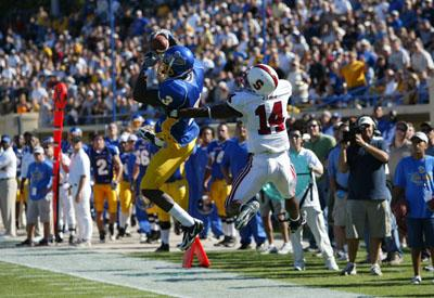 Wide receiver James Jones of San José State catches touchdown pass against Stanford. San José won 35–34